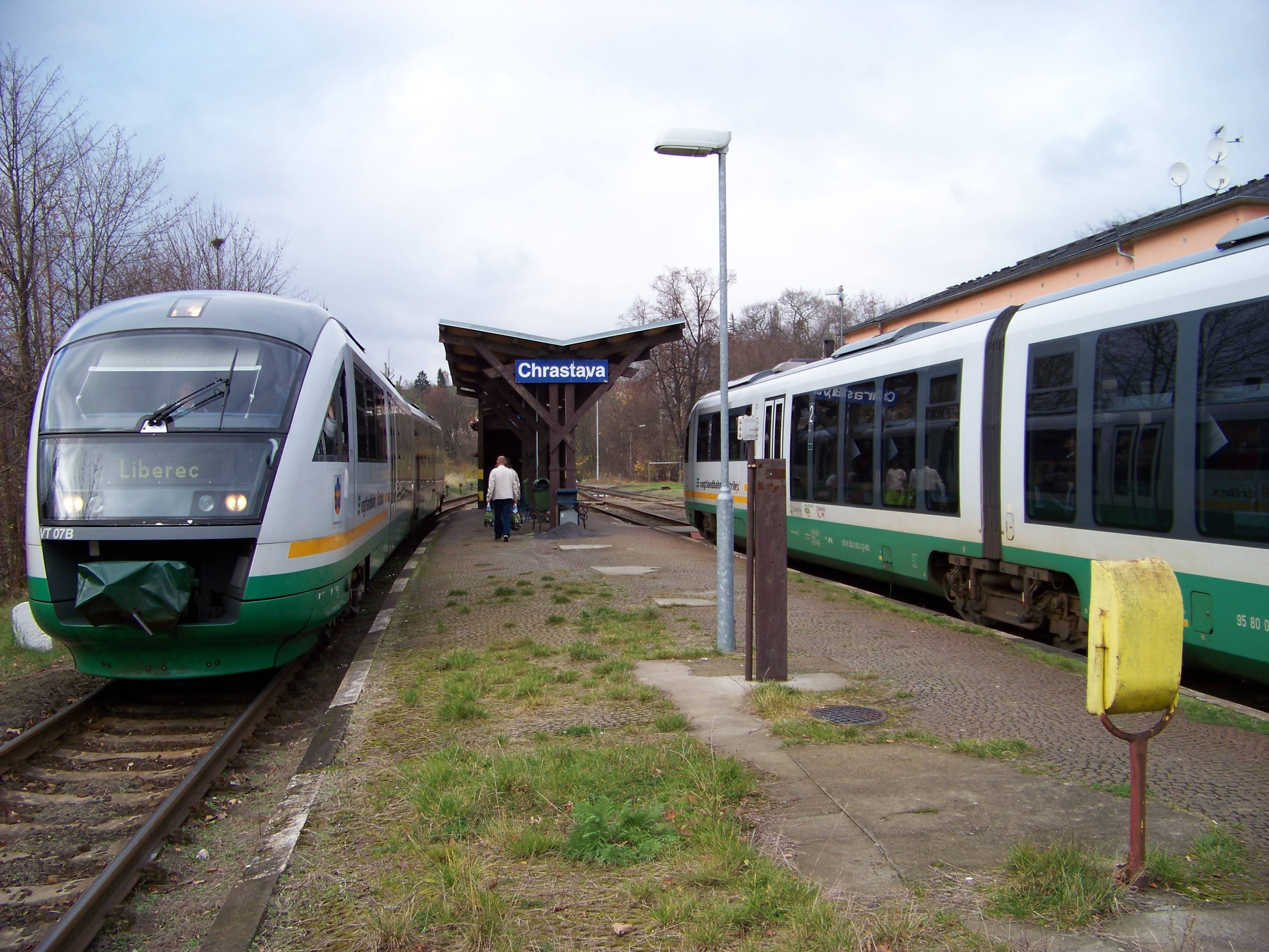 Chrastava-Dolní Chrastava, Liberec District, Liberec Region, Czech Republic. Trains in the station Chrastava. - Google Maps - Google Earth